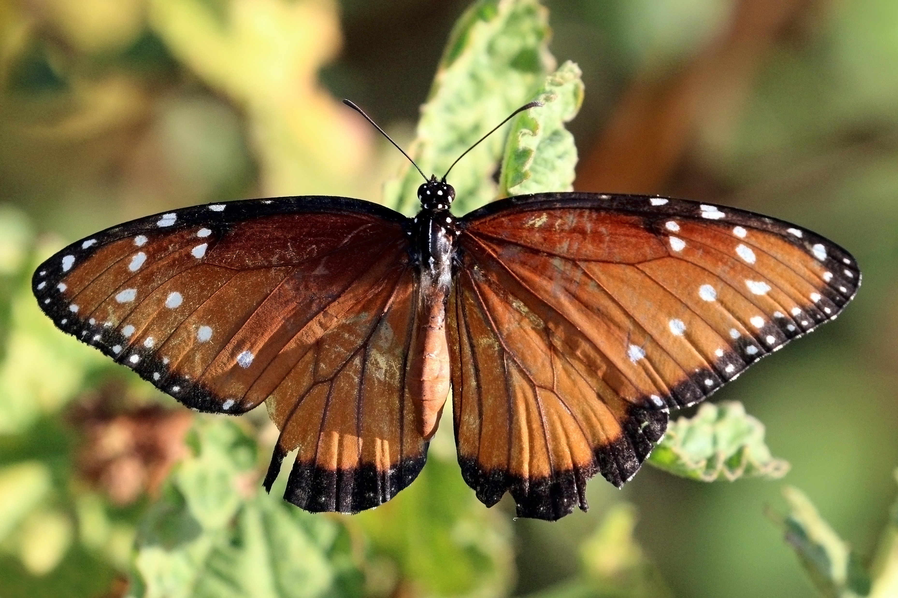 Queen (Danaus gilippus berenice), Grand Cayman